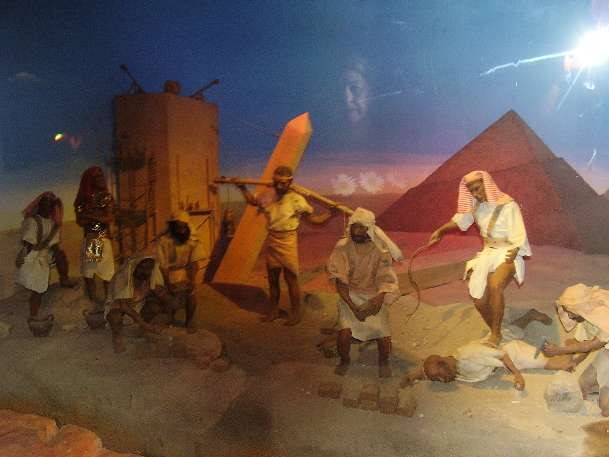 bible stories, people of israel in egypt - in kings city, eilat